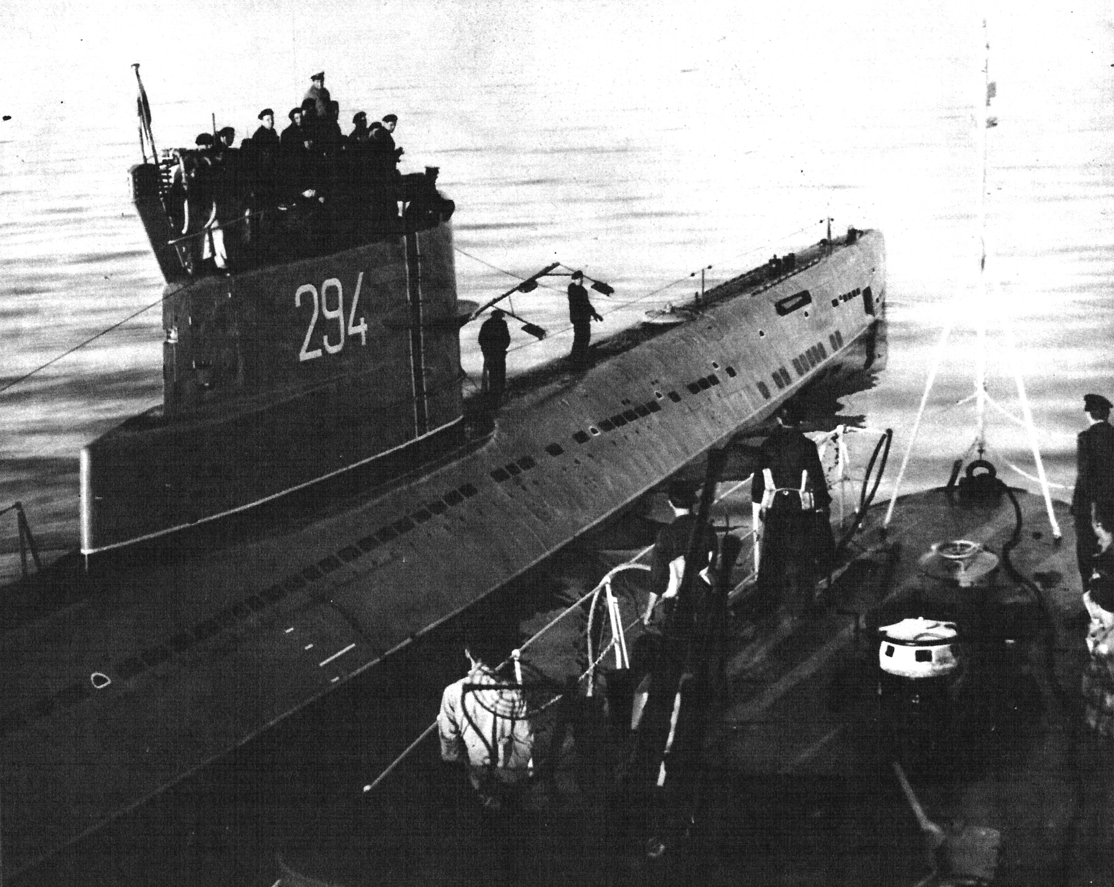 ORP Kondor (294) of project 613 (Whiskey V), one of four Polish boats of this class. Between August 5th and 8th, 1967 she passed undetected through Soviet ASW defence line on Barents Sea, while she was en route from Gdynia Naval Base (Poland) around Norway, and surfaced in the roadstead of Murmansk submarine naval base during a huge Polish-Soviet ASW exercises. She repeated the same performance next year, defeating Warsaw Pact air and naval anti-submarine defence line around Murmansk in June 1968, surfacing in the direct proximity of main Northern Fleet naval base.